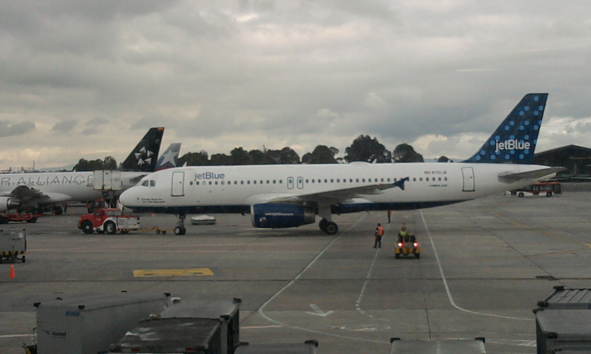 El Dorado International Aiport